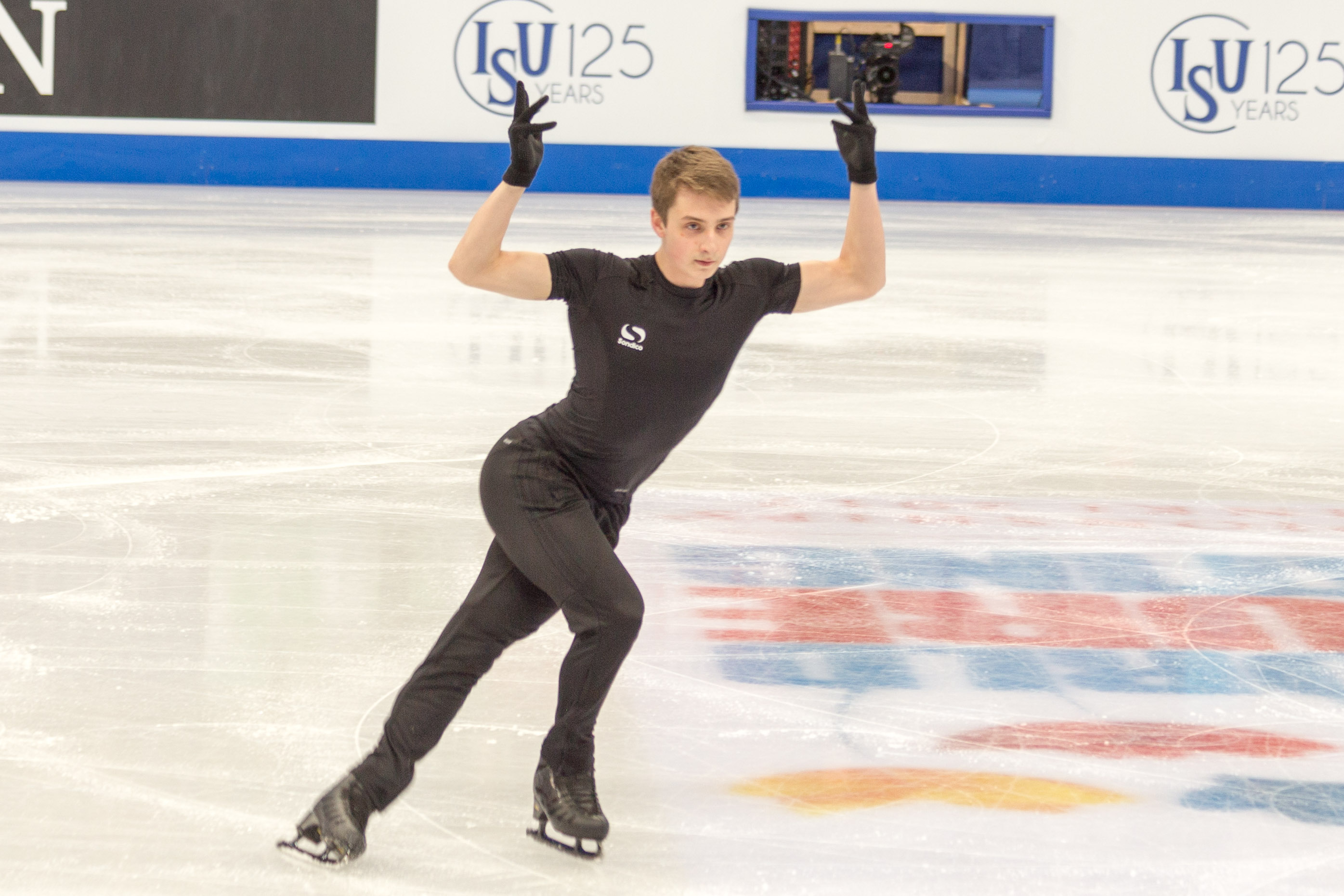 Graham Newberry (GBR) during a practice session at the 2017 World Figure Skating Championships